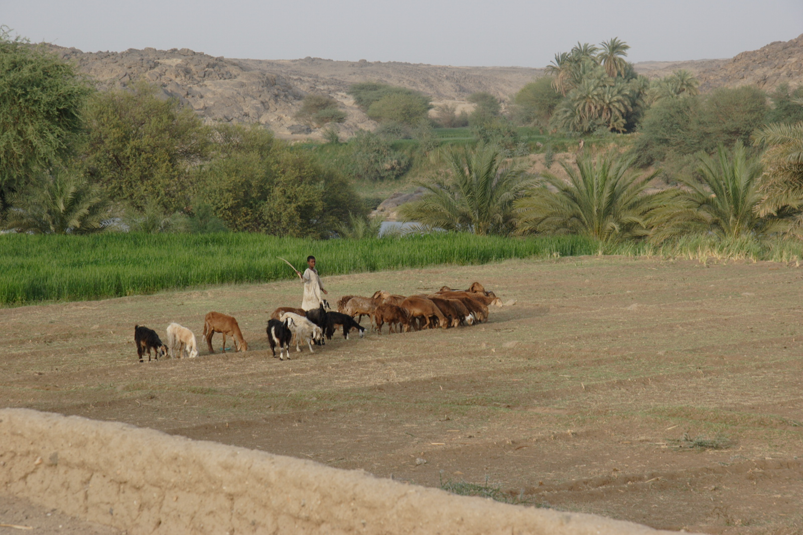 Palm trees growing on the Ashu land (أشو) in between the land inundated by the Nile called Gerif (جرف) and the irrigated Saqiah land (ساقية). *Photo taken on Sherari Island in Dar al-Manasir, Northern Sudan. (c) GFDL David Haberlah (Homepage of David Haberlah, )